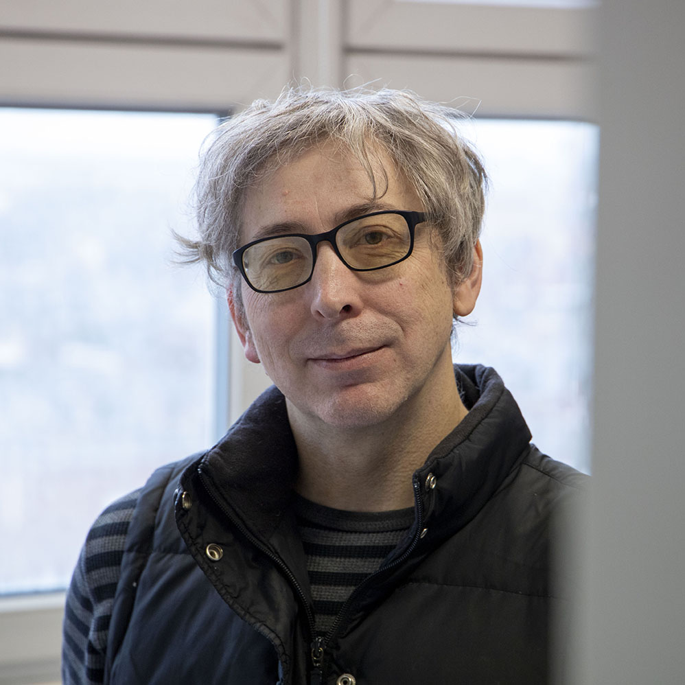 jpeg image of Cartoonist Educator Julian Lawrence [1]